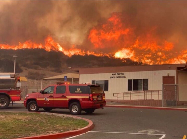 The Tick fire close to one of the schools that closed.